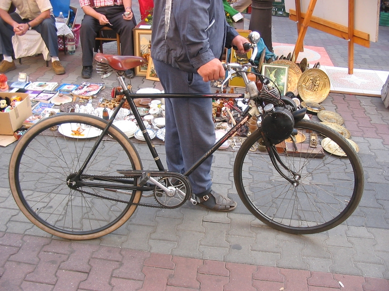 A man's bicycle modified to mount a Velosolex 45 cc. engine.